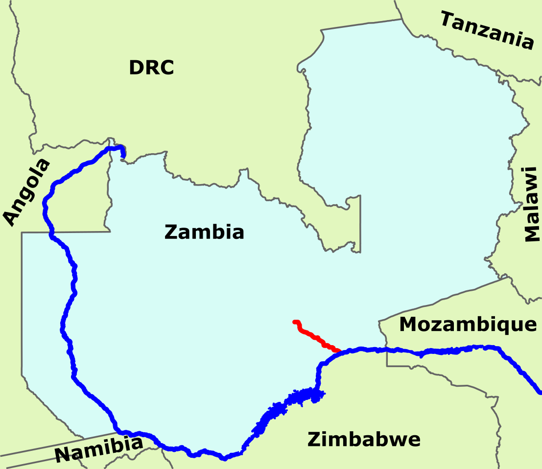 The Chongwe River (red) and part of the Zambezi River (blue)